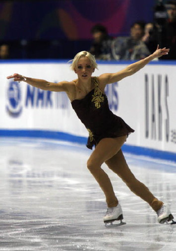 Annette DYTRT at the NHK Trophy 2008